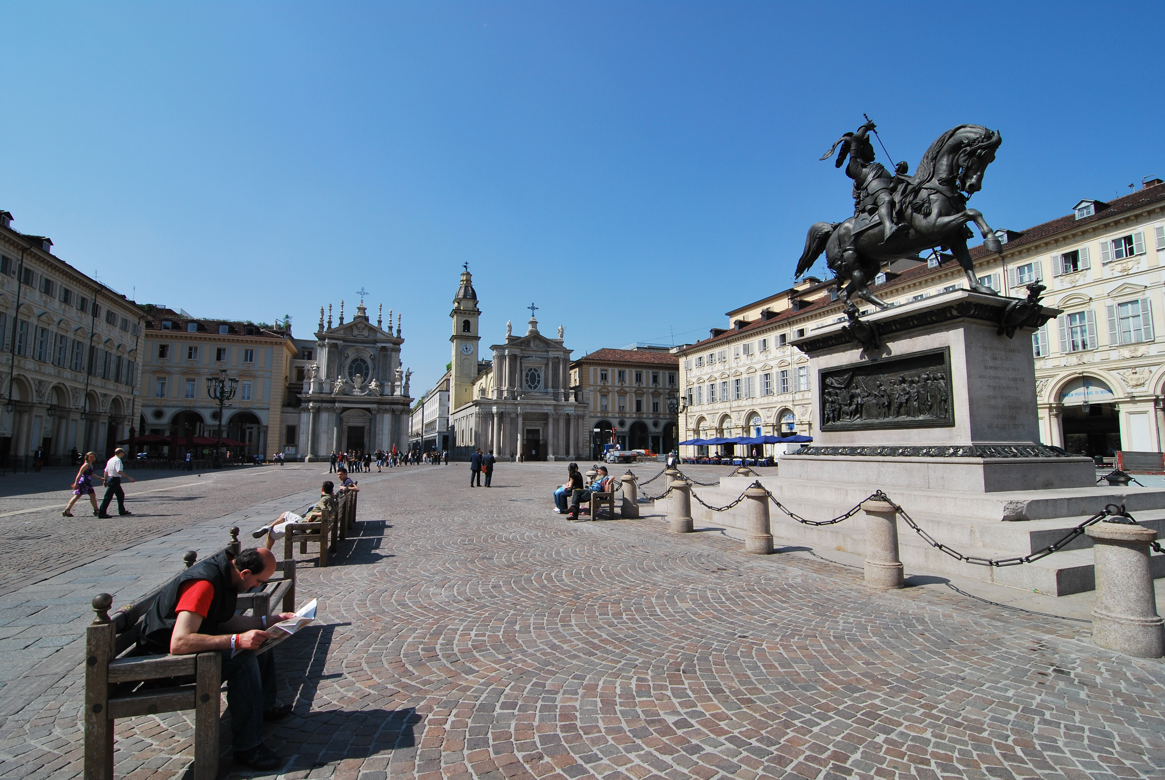 turin piazza san carlo 2009